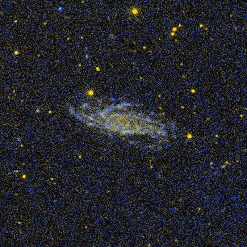 NGC 5161 from GALEX sky survey